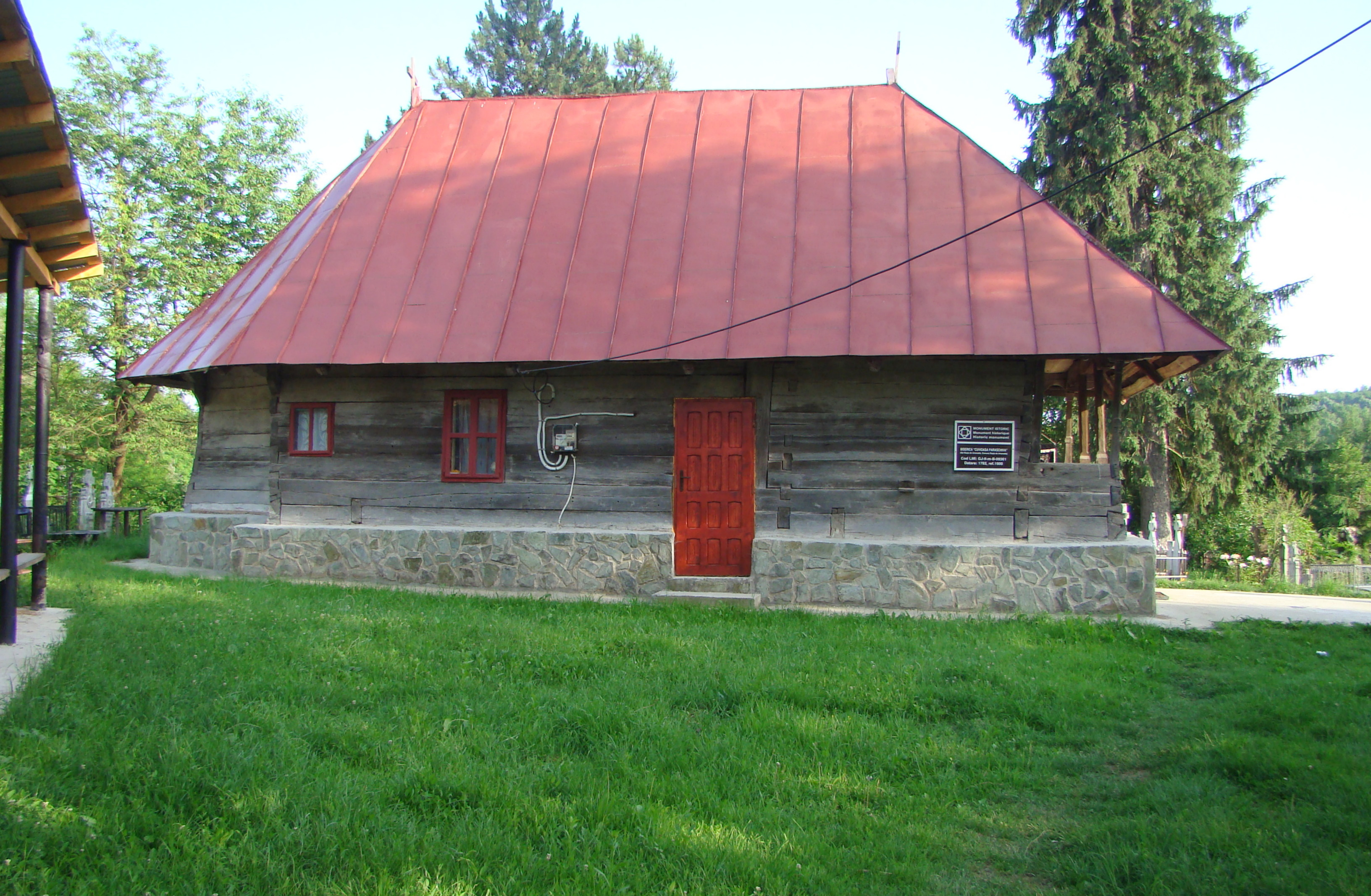 Wooden church in Roșia de Amaradia, Gorj county, Romania